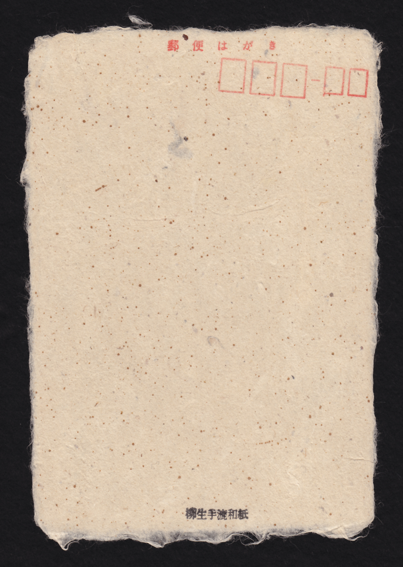 "Yanagiu washi" postcard. Traditional Japanese paper. Taihaku ward, Sendai city, Miyagi pref, Japan.